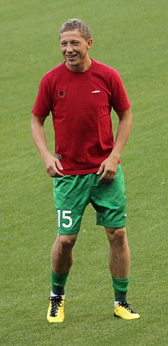 Rafał Murawski